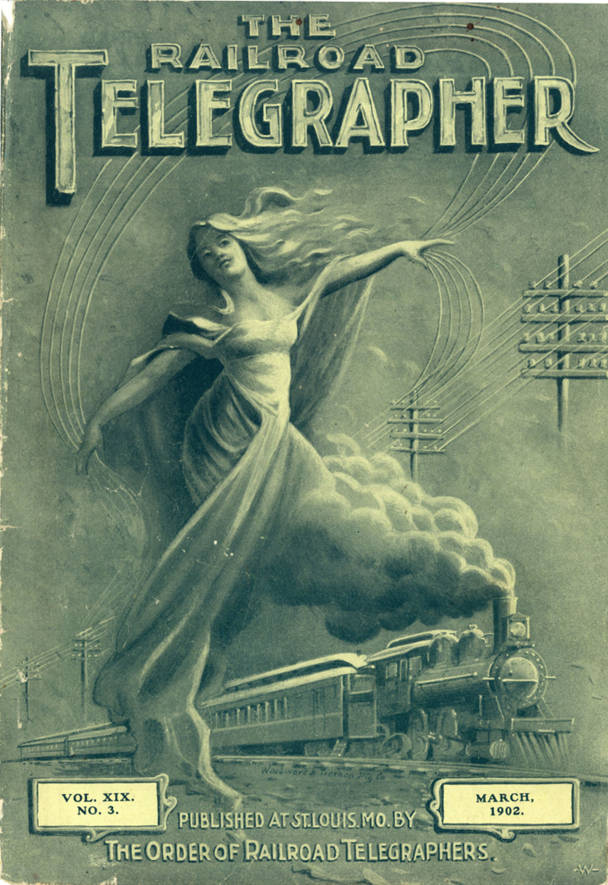 Cover of Railroad Telegrapher, March 1902. Woodward & Tiernan Printing Co., St. Louis Mo.